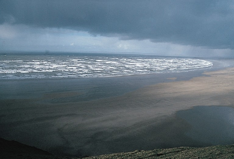 The wide expanse of sand and low waves, even though a storm is blowing onshore, indicate that this coastline at Rhossili in Wales is a low energy shoreline.